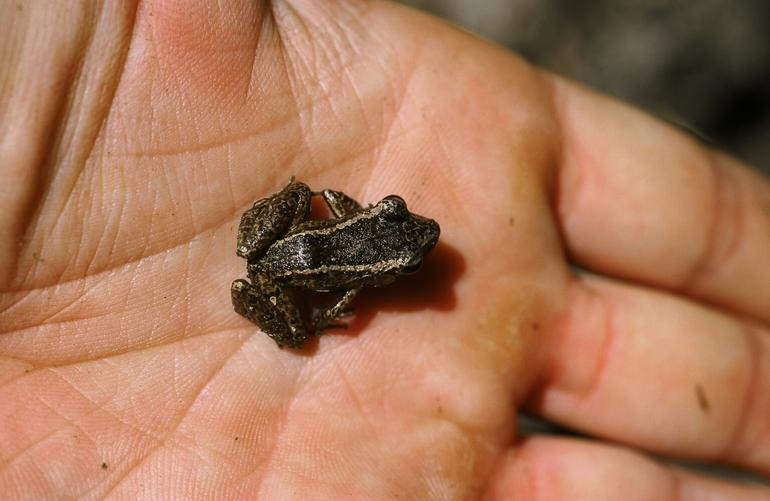 Eleutherodactylus cuneatus